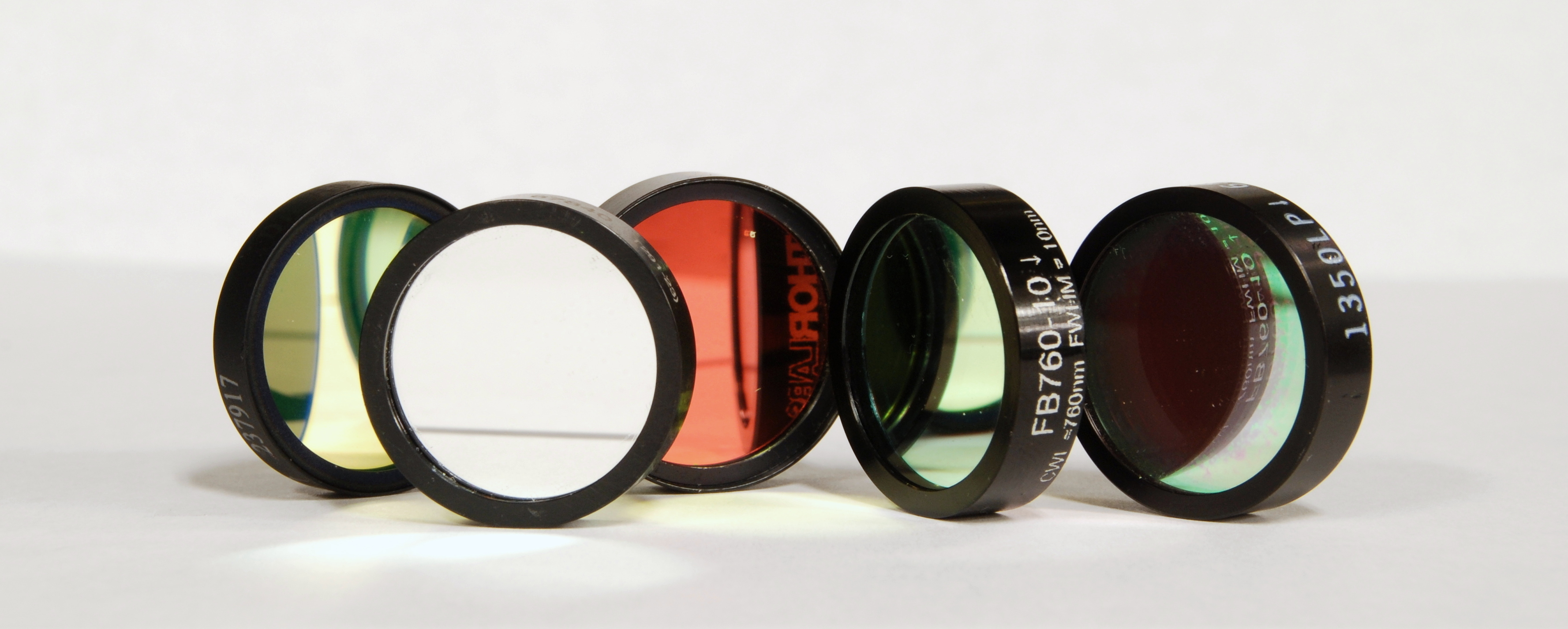 Dichroïc filters for atomic physic experiments.